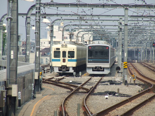 Stabling tracks on the north side of Kyodo Station on the Odakyu Odawara Line in Setagaya, Tokyo, Japan